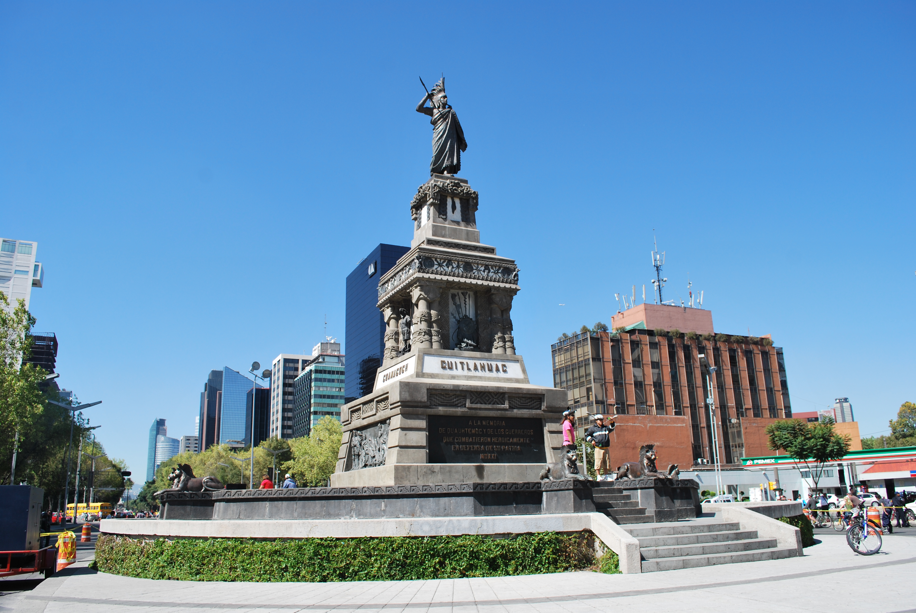 Monument to Aztec leader Cuauhtémoc on Paseo de la Reforma, Mexico City